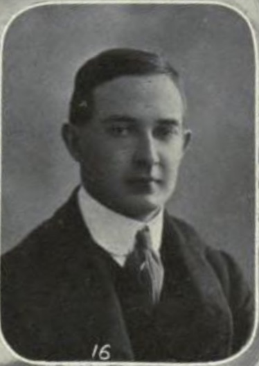 Charles Messer, Acting Postmaster General, 1908